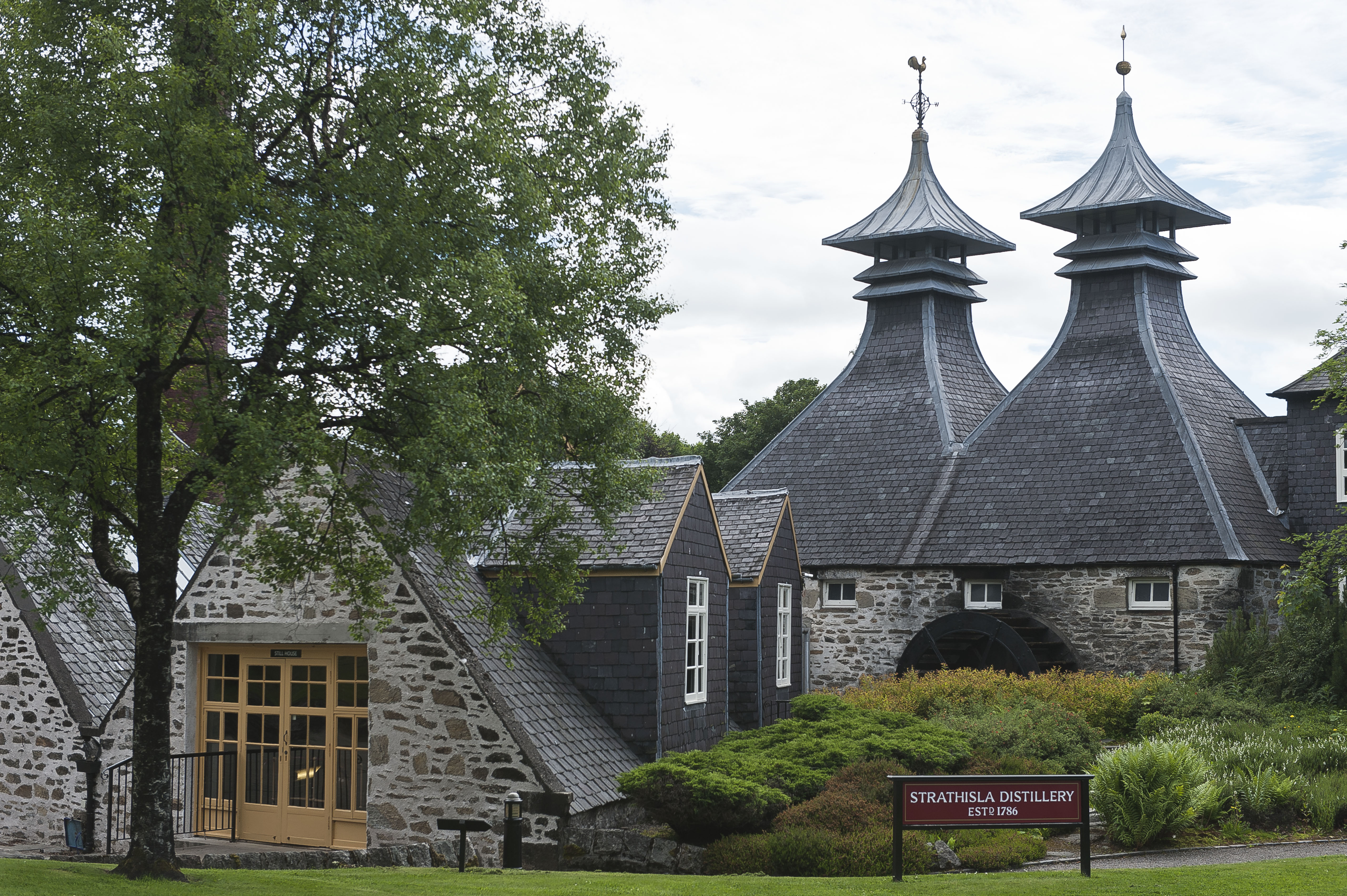 Strathisla distillery, Keith, Scotland